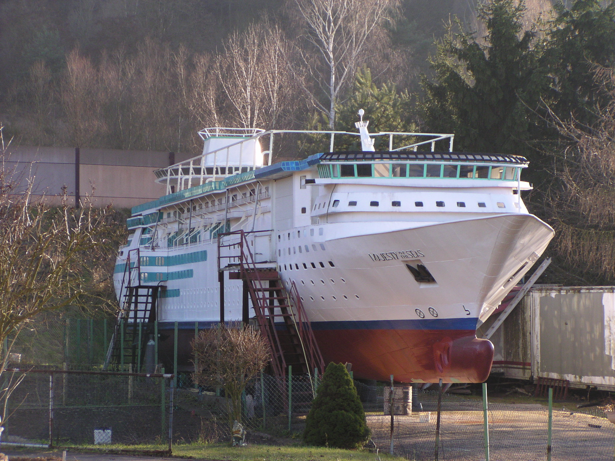 The cruise ship Majesty of the Seas (mini) under construction at Morsbach on January 10, 2005.